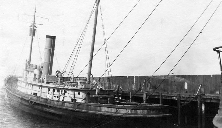 Lykens (American Tug, 1899) In port, possibly when inspected by the 4th Naval District on 20 February 1917. This tug was commissioned as USS Lykens (SP-876) In November 1917. Designated AT-56 in 1920, she was sold in February 1934. U.S. Naval Historical Center Photograph.